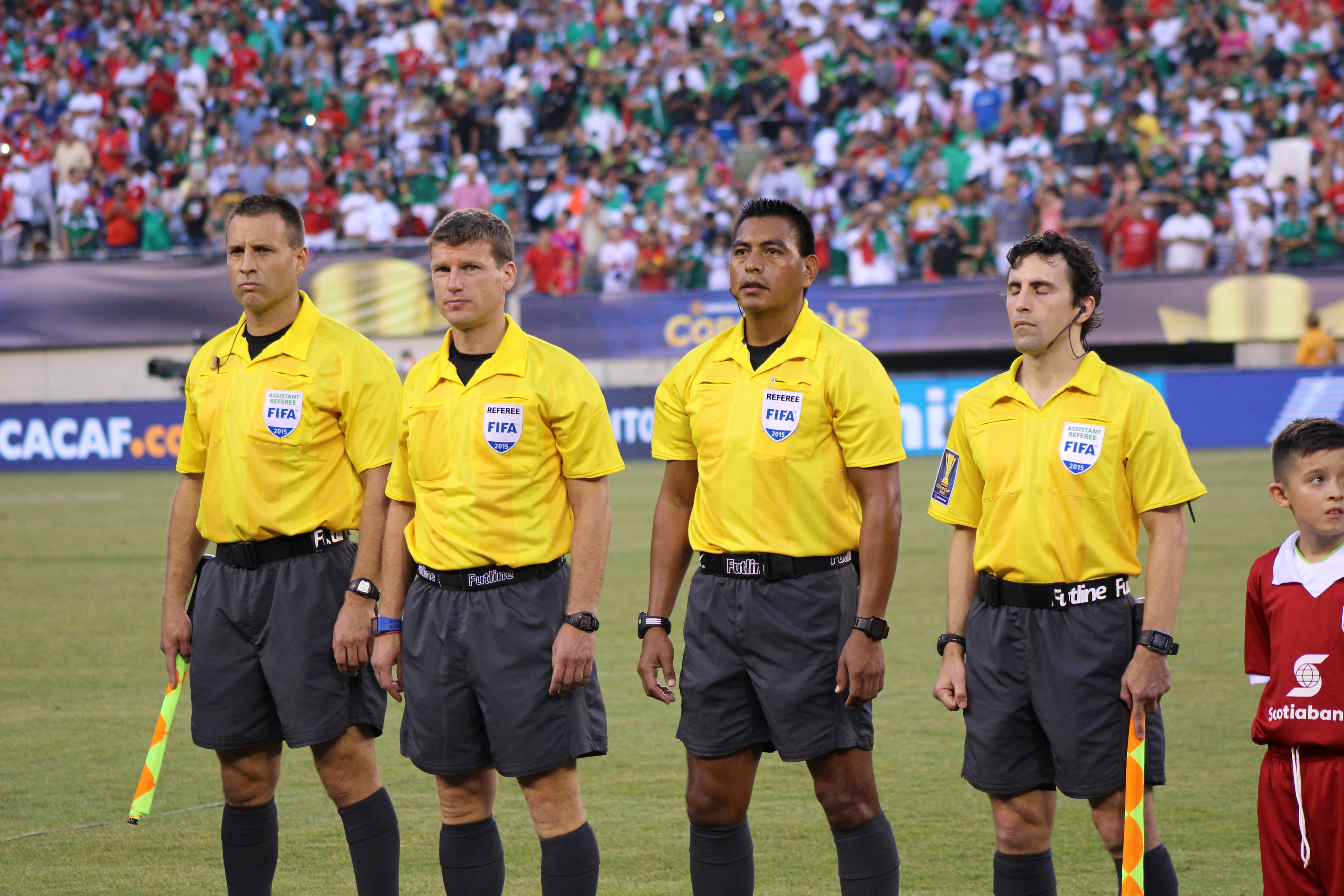 FIFA Referees